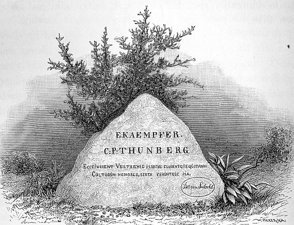 Memorial by Philipp Franz von Siebold for Carl Peter Thunberg and Engelbert Kaempfer in Dejima park in Nagasaki